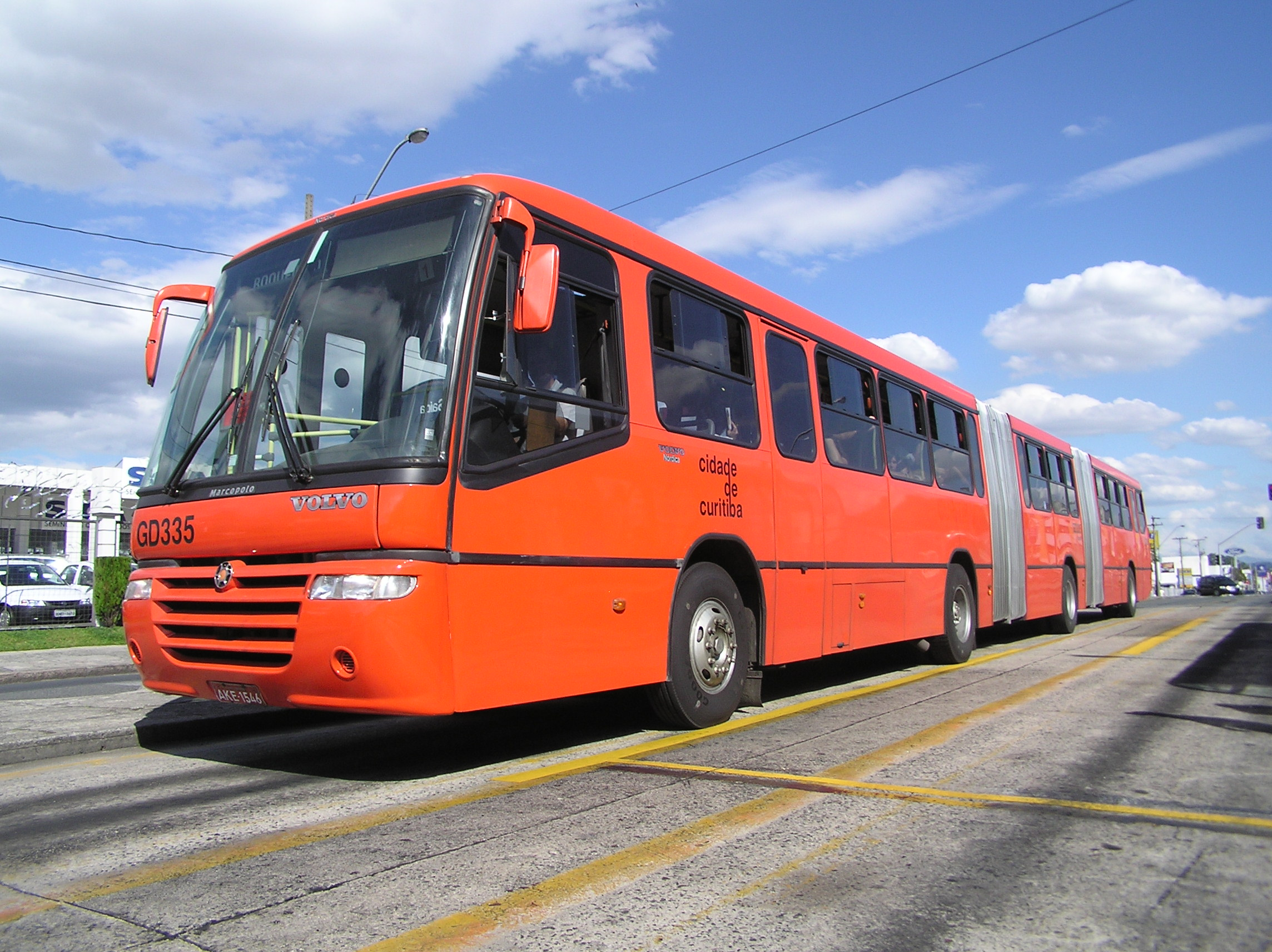 Expresso Biarticulado in Curitiba, Paraná, Brasil. Marcopolo Torino Biarticulado bus (#GD335) with Volvo B10M Biarticulado chassis.